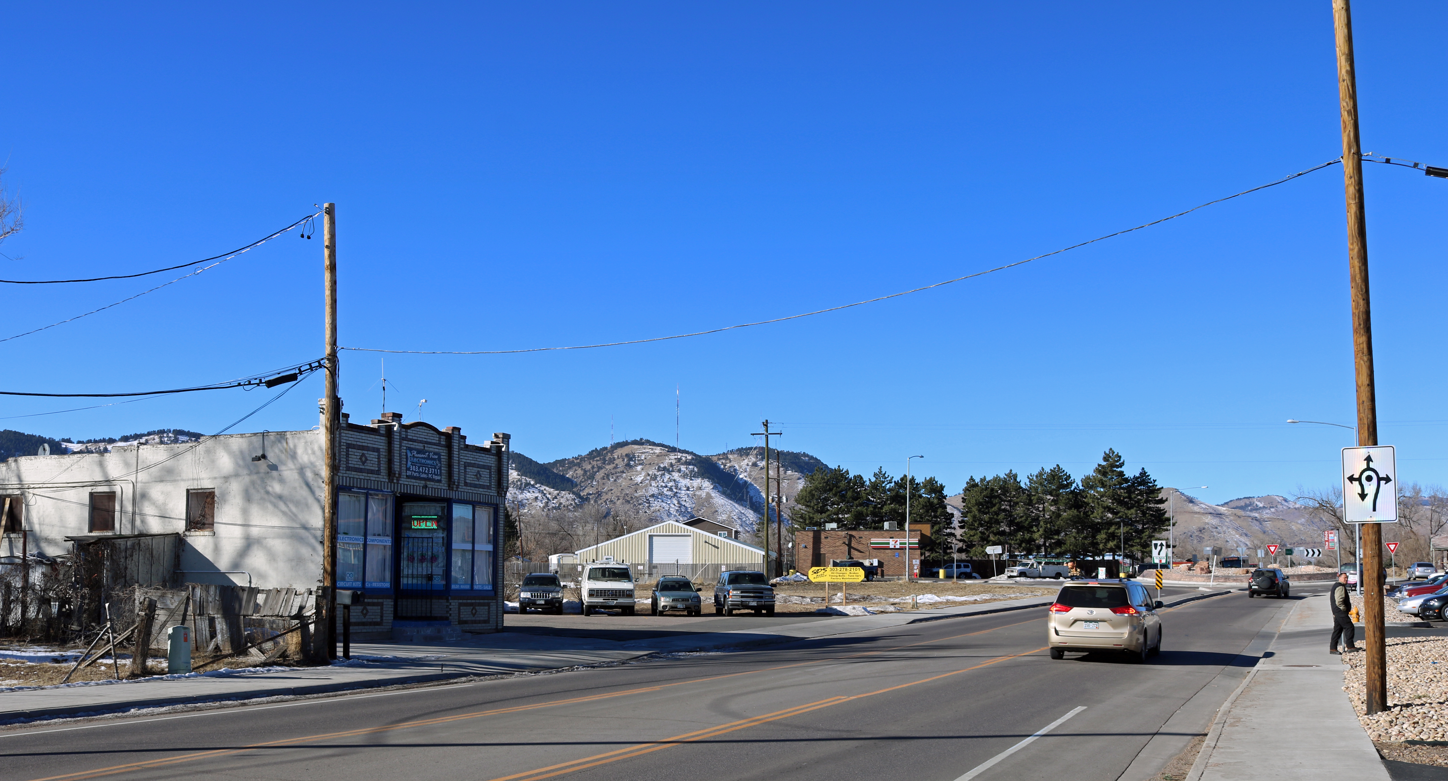 A view of West Pleasant View, Colorado. The street in the picture is South Golden Road. The older building to the left of center is an electronics store now, but it was originally the Golden Market. The roundabout on the right is the intersection of South Golden Road and Quaker Street. The view is to the west southwest, and Lookout Mountain appears just left of center.